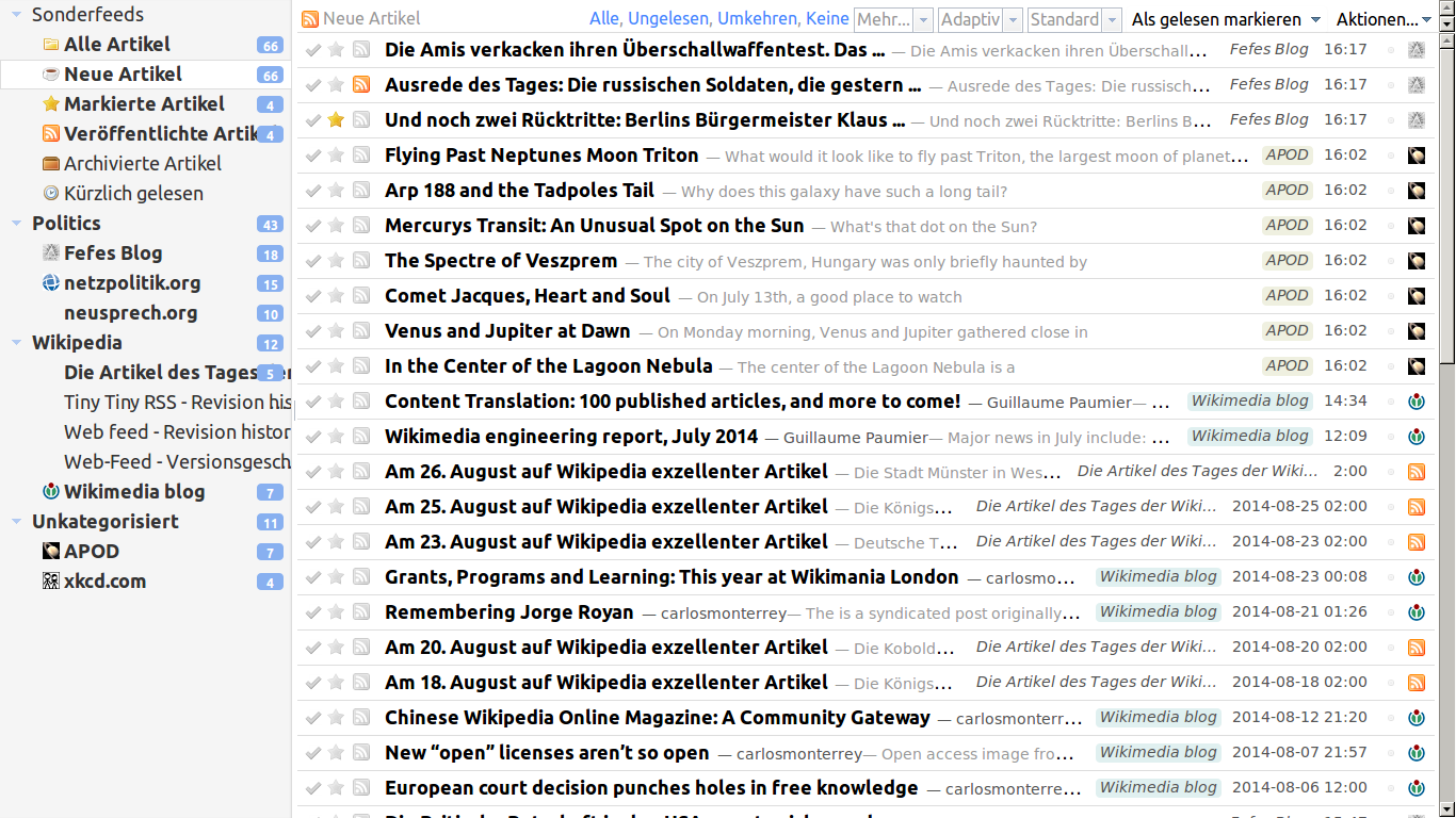 Tiny Tiny RSS installation with a german interface.